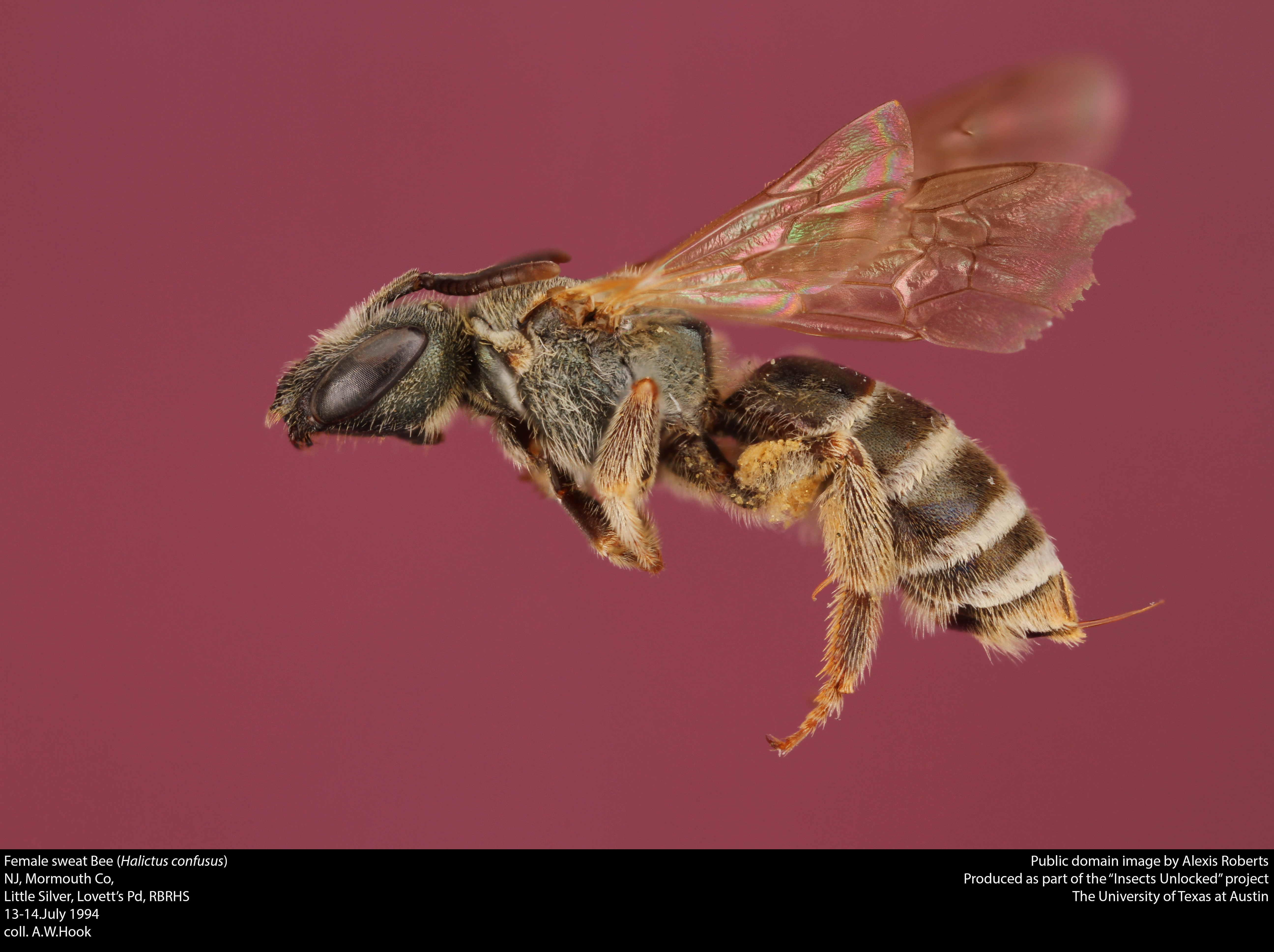 Female sweat Bee (Halictus confusus )NJ, Mormouth Co, Little Silver, Lovett’s Pd, RBRHS 13-14.July 1994 coll. A.W.Hook Public domain image by Alexis Roberts Produced as part of the “Insects Unlocked” project The University of Texas at Austin